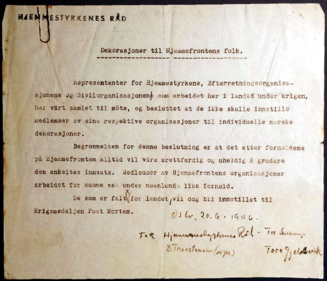 Home Forces Council decision not to nominate people from home front organizations for medals. Dated Oslo, 20 June 1946.